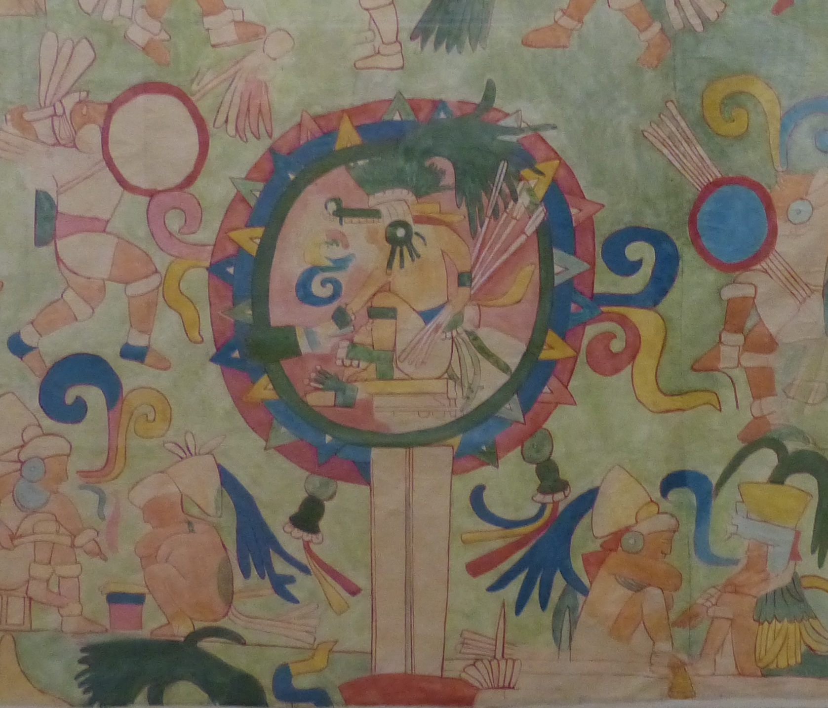 Part of the mural on the SW side of the Temple of the Jaguars at Chichen Itza. From a watercolour painted by Adela Breton at Chichén Itzá around 1907, in the collection of the Bristol Museum and Art Gallery